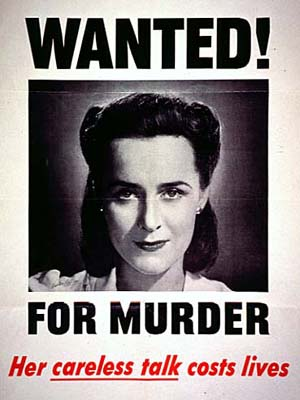 US propaganda - "Her careless talk costs lives"